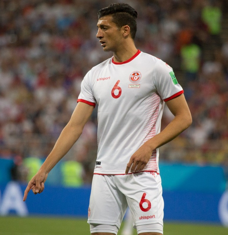 Rami Bedoui